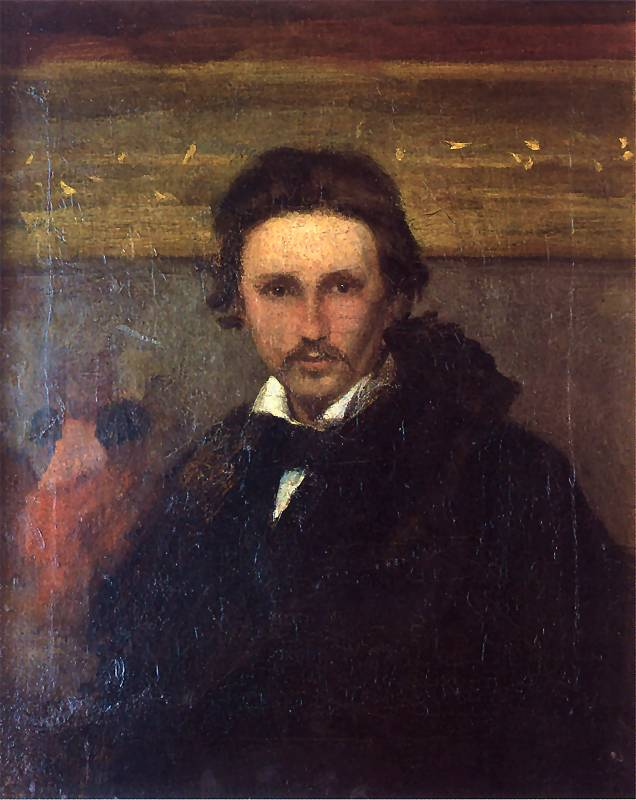 Antoni Sygietynski portrait